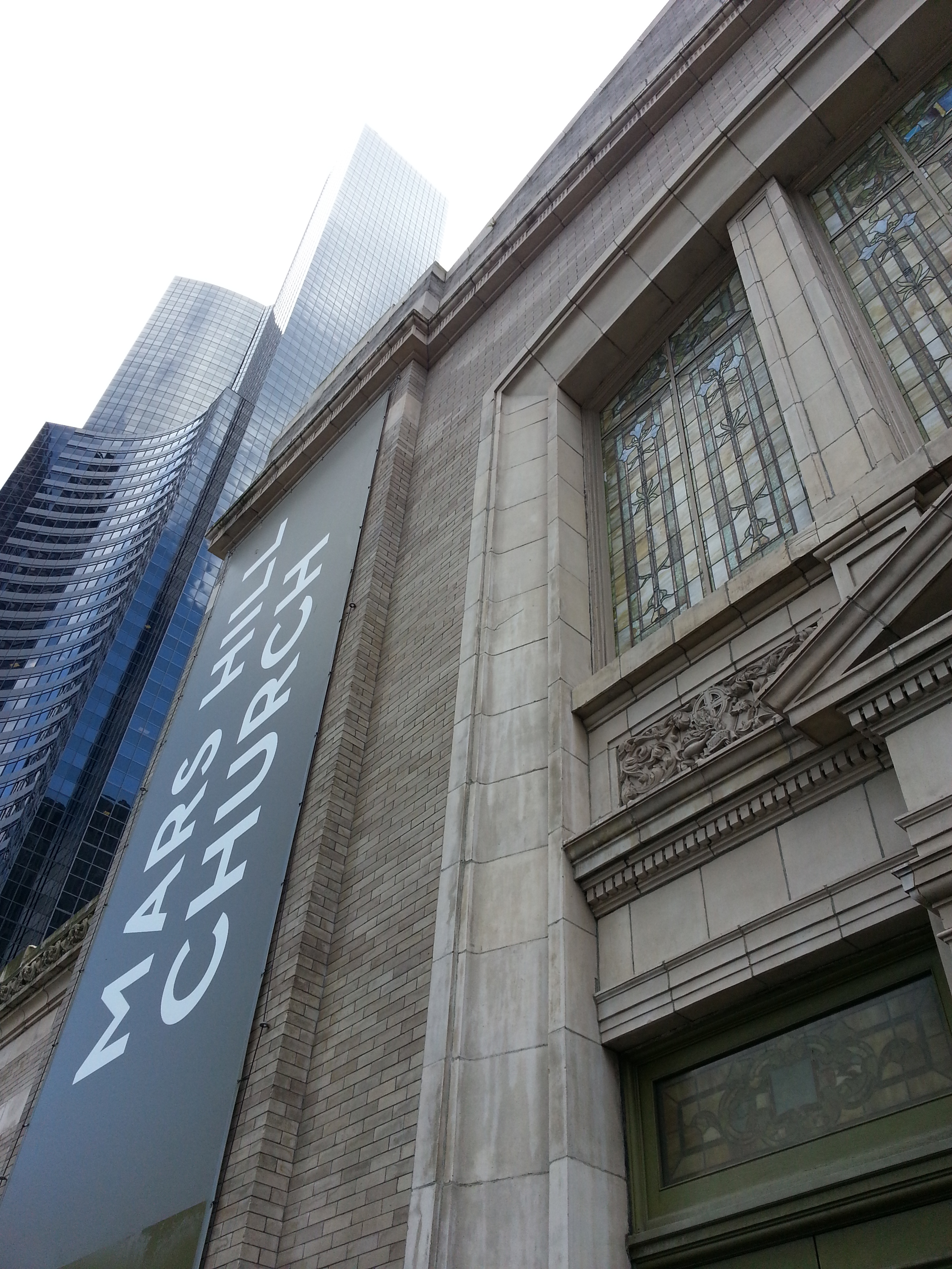 Street photo of Mars Hill Church, meeting at Daniels Recital Hall in downtown Seattle, WA. As of October 12, 2014, Mars Hill Church has closed this branch and no longer meets in it.